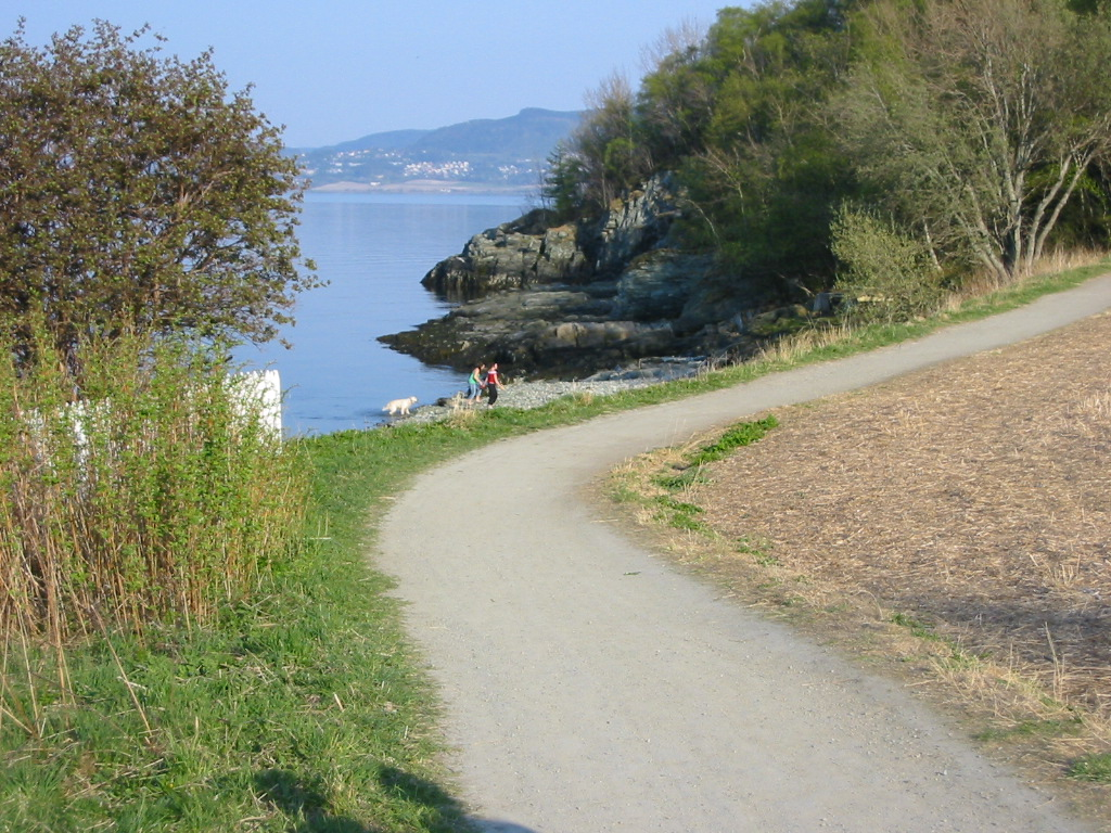 Ladestien (Lade trail), Lade peninsula, Trondheim, Norway. View towards east. Early evening of this warm day (22 dgr C), May 7 2006. Picture taken by myself. Orcaborealis.